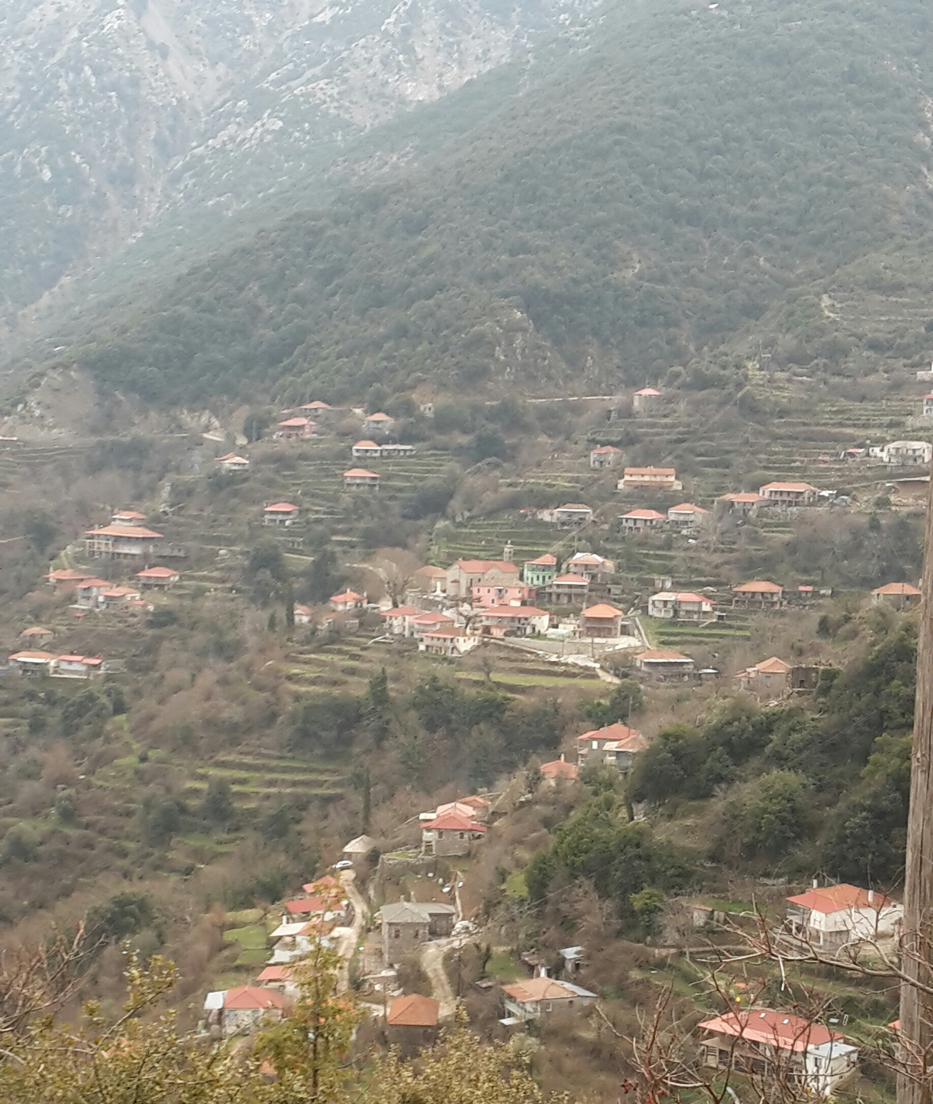 Katafigio Nafpaktias - Amorani